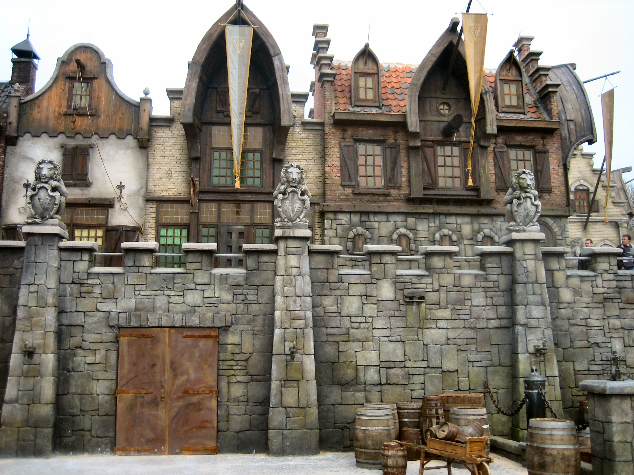 Vliegende Hollander (Flying Dutchman) De Efteling Kaatsheuvel The Netherlands Photo taken by Hullie Sunday 23 April 2006